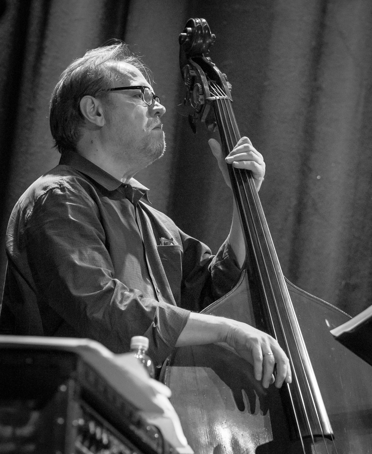 Bruno Råberg in a concert with Mike Mainieri and Bendik Hofseth at Cosmopolite Scene in Oslo on 04. May 2016. Backed by Jazzcode and later in the concert by Cosmopolitans. The musicians had earlier that week recorded three albums in a studio in Oslo. Lineup:Mike Mainieri (vibraphone)Bendik Hofseth (tenor saxophone)Jørn Øien (piano)Bruno Raberg (double bass)Sidiki Camara (percussion)Carl Størmer (drums)Jacob Young (guitar)Helge Iberg (piano)Paolo Vinaccia (percussion)